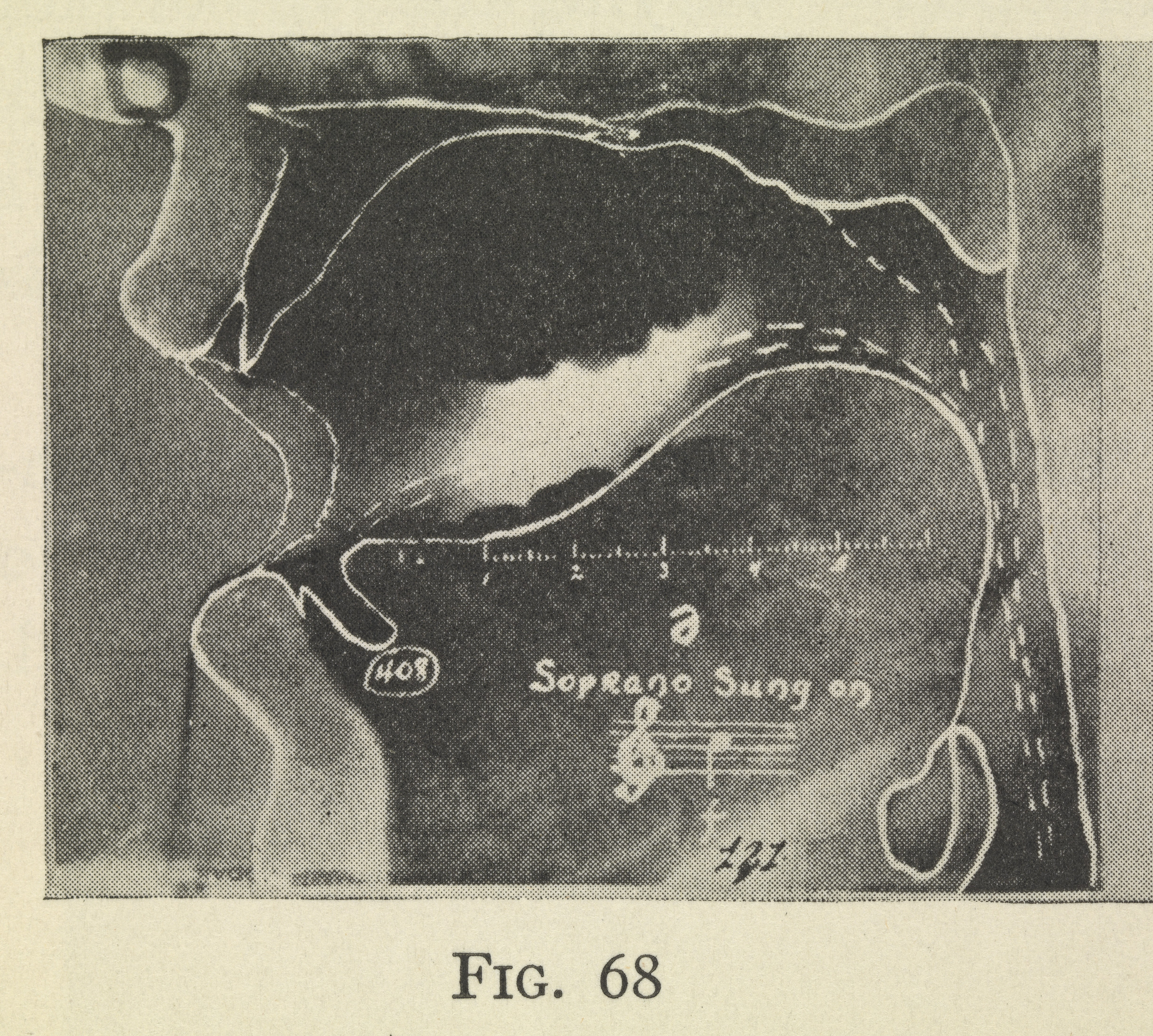 Diagram illustrating the soprano voice. General Collections Keywords: Voice; Speech